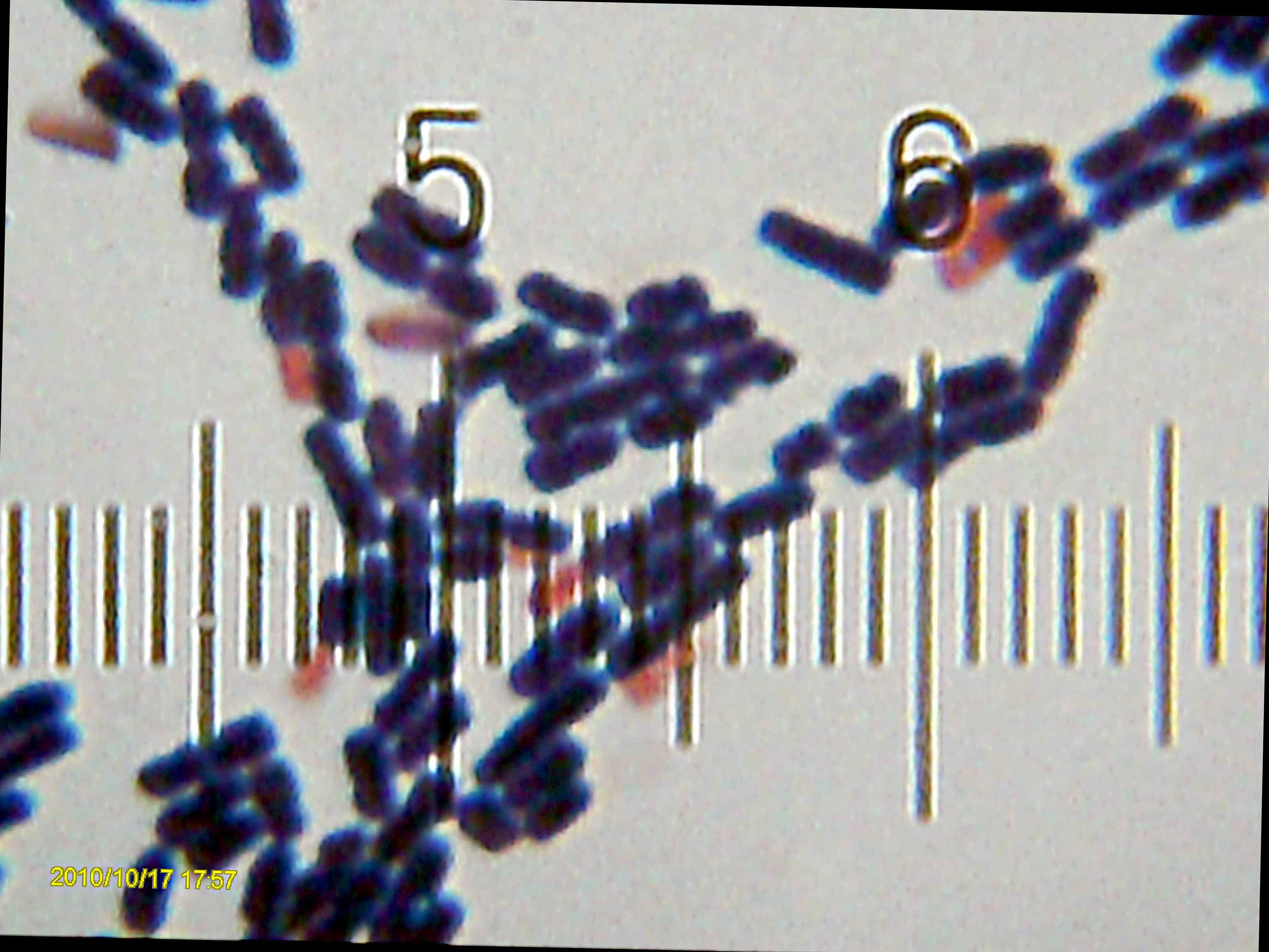 Where I work, when the weather is really hot, they mix up a cooler of sugar-free Sqwincher for us. The last time, when the weather cooled off, and the last batch of Sqwincher had been neglected for about two weeks, I took a sample to see if anything was growing therein. On direct observation, I was very hard-pressed to find anything that I thought might be alive. I found one object that I thought might be a bacillus. I also put some of this sample in a Petri dish, and on examining that dish, a few days later, I found a considerable growth of bacteria that looked just like the one possible bacillus that I observed directly. This image is of bacteria taken from the Petri dish culture, and Gram-stained. 100× objective, 15× eyepiece; the numbered ticks are 11 µM apart. Gram-stained The scale of the full-sized version of this image is such that each pixel represents a 0.00945 µM square.